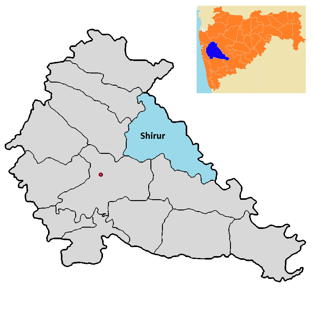 Shirur tehsil in Pune district